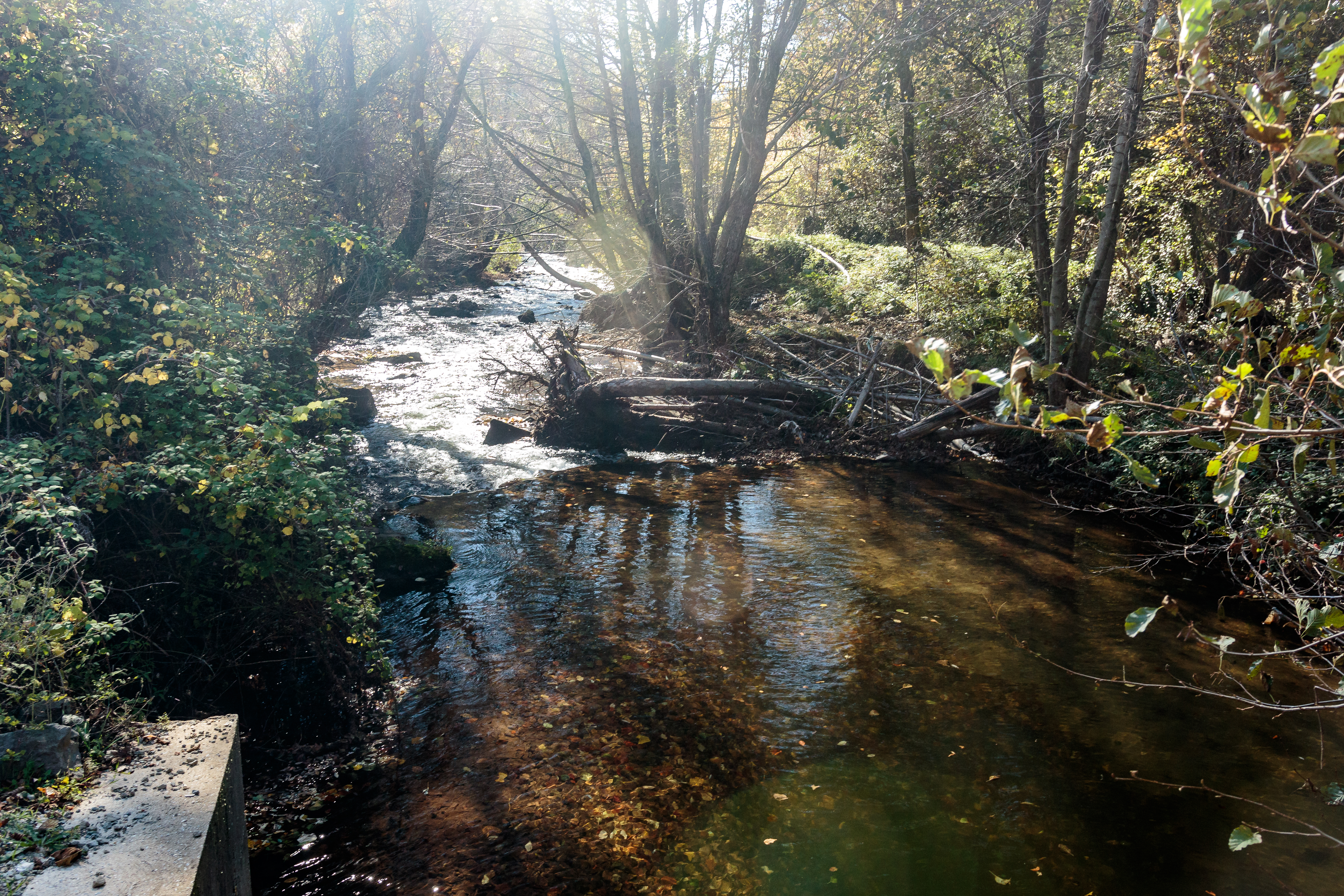 Zletovo River near the Zelengrad monastery, Zletovo-Probištip Region, Macedonia